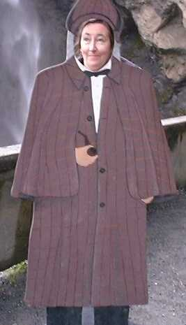 On the viewing platform beside the Reichenbach Falls, near Meiringen, Kanton Bern, Schweiz the tourist-loving Swiss have erected a cut-out figure of Sherlock Holmes in his traditional outdoor garb. The face is cut out so the visitor may stand behind and be photographed. The face in the hole is Lesley J Webster. See also